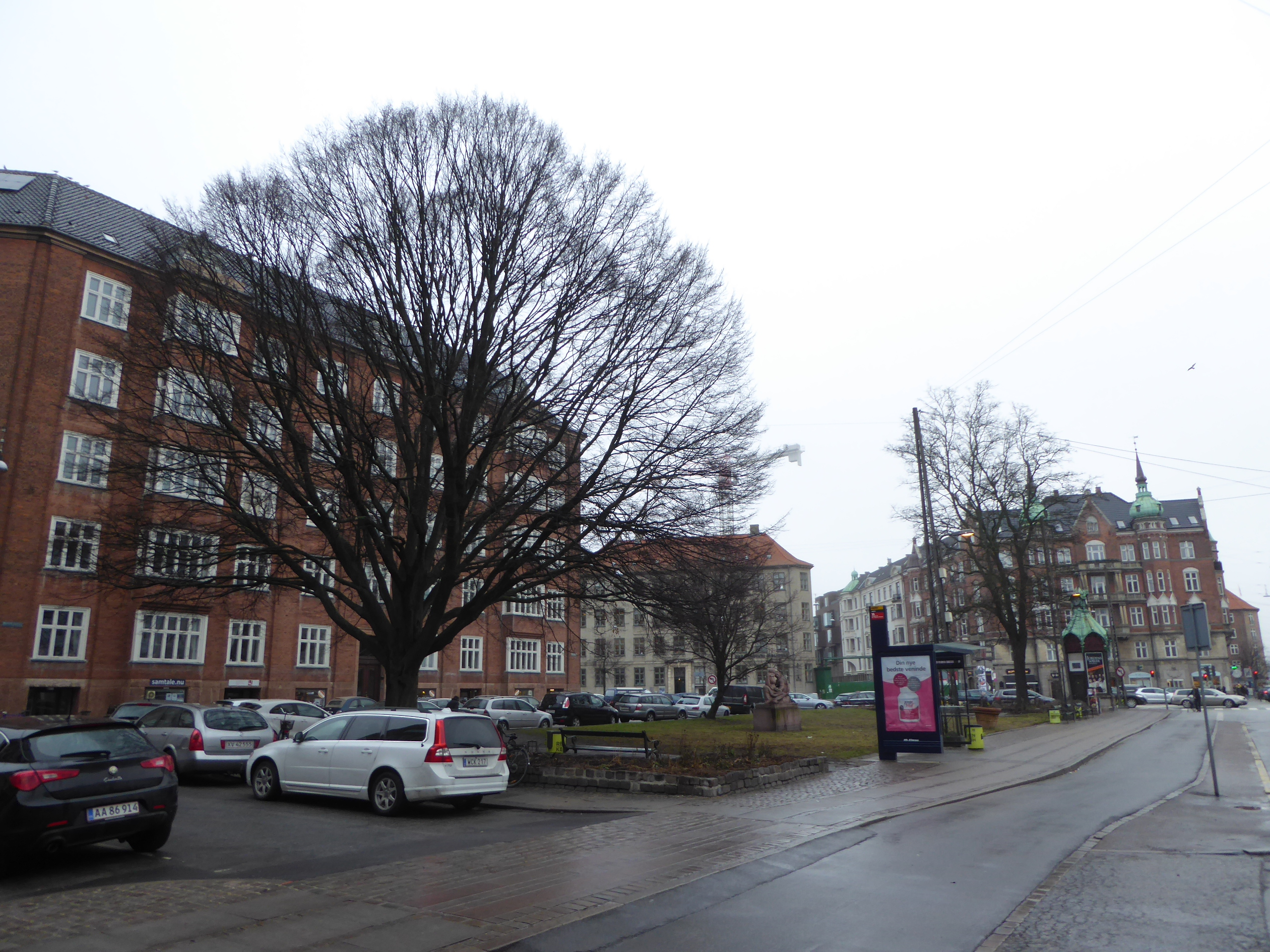 The square Poul Henningsens Plads in Østerbro in Copenhagen.